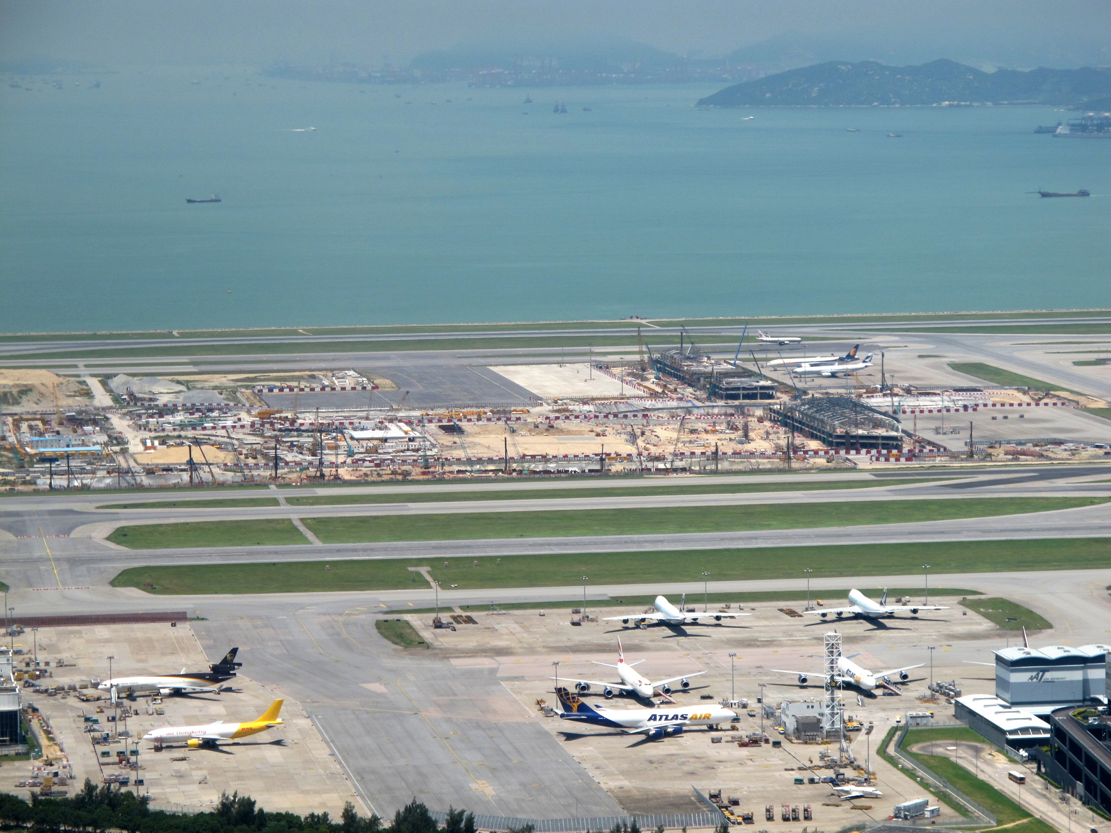 Hong Kong International Airport Expansion Site